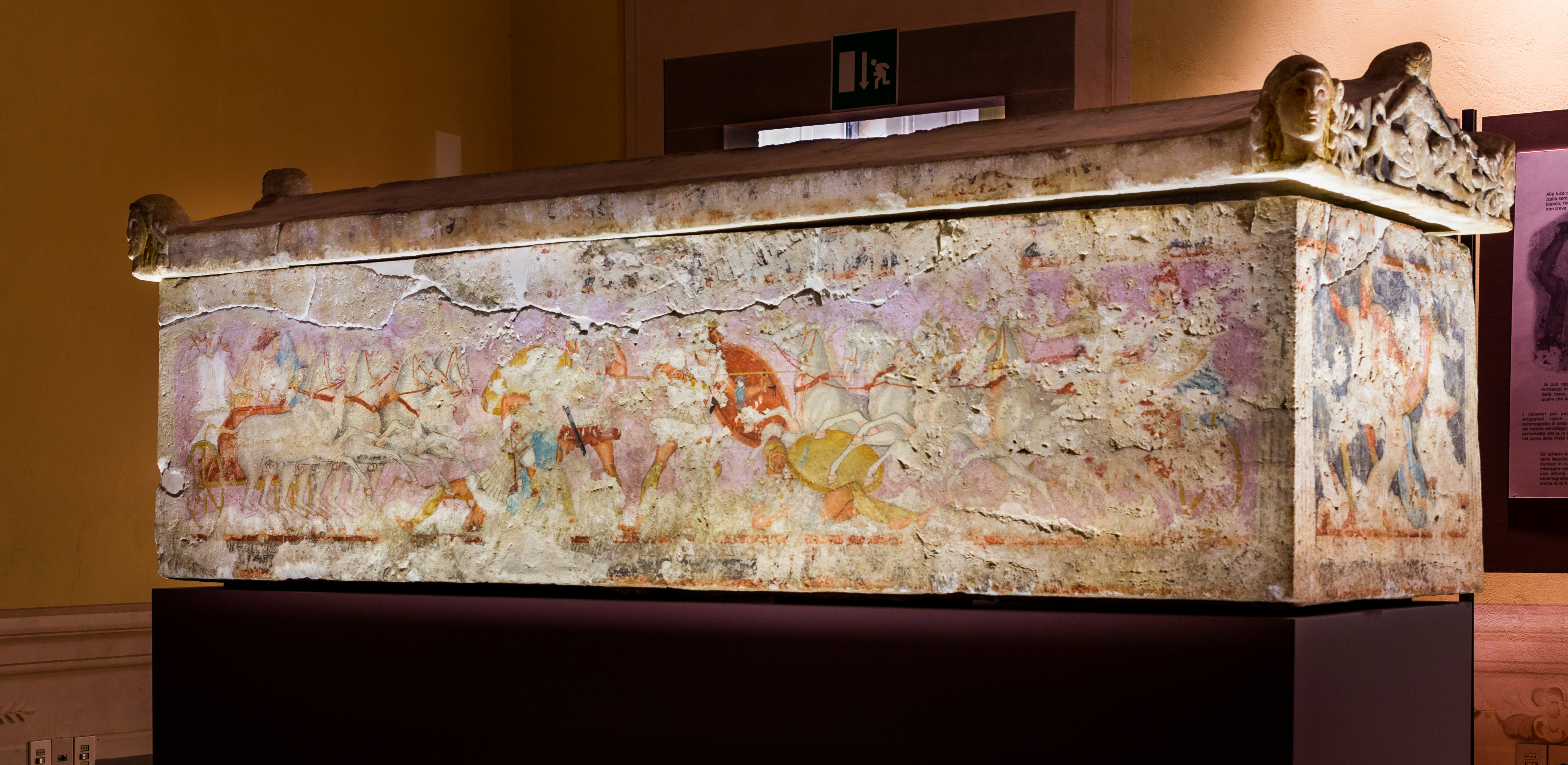 object type: sarcophagus made in one piece from marble from Asia Minor, with architectonic lid; themes and style of the lid are typical Etruscan, the painting may have been executed by an artist from Southern Italy (Greek or native Italian acquainted with Greek painting): a piece of highest importance for the study of late classical and early hellenistic painting - description: lid tympana: relief: Aktaion killed by his dogs; plastic akroteria - painting on the body of the sarcophagus: Amazonomachy on all four sides - incised inscriptions on the lid and on one side of the sarcophagus: Name of the deceased (woman): Ramtha Huzcnai - period / date: late classical, ca. 350-325 BC lenght: 194 cm; width: 62 cm; height (including lid): 71 cm - findspot: Tarquinia - museum / inventory number: Firenze, Museo Archaeologico Nazionale 5811 - bibliography: - Please note: The above museum permits photography of its exhibits for private, educational, scientific, non-commercial purposes. If you intend to use the photo for any commercial aime, please contact the museum and ask for permission.